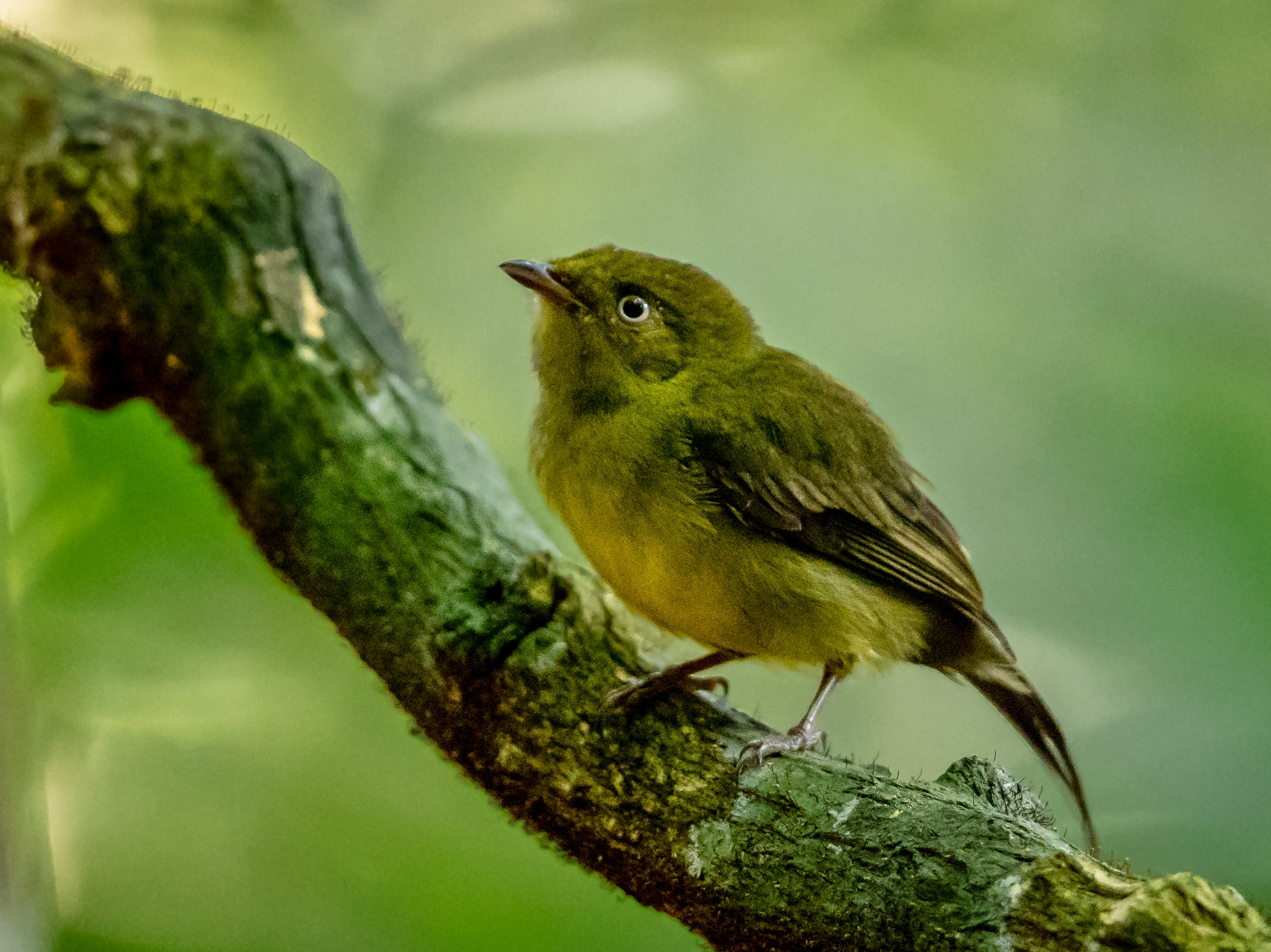 Wire-tailed manakin (female), Anavilhanas islands, Novo Airão, Amazonas, Brazil